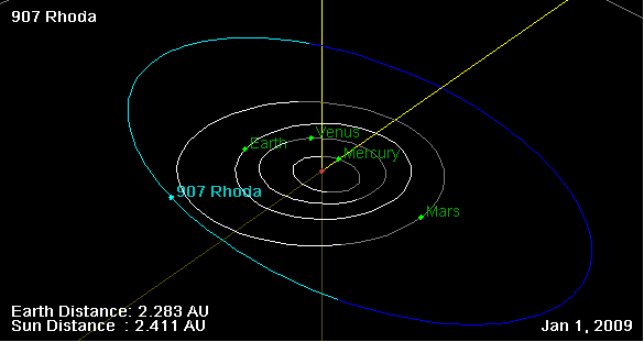 907 Rhoda orbit, and his position on 01 Jan 2009 (NASA Orbit Viewer applet)